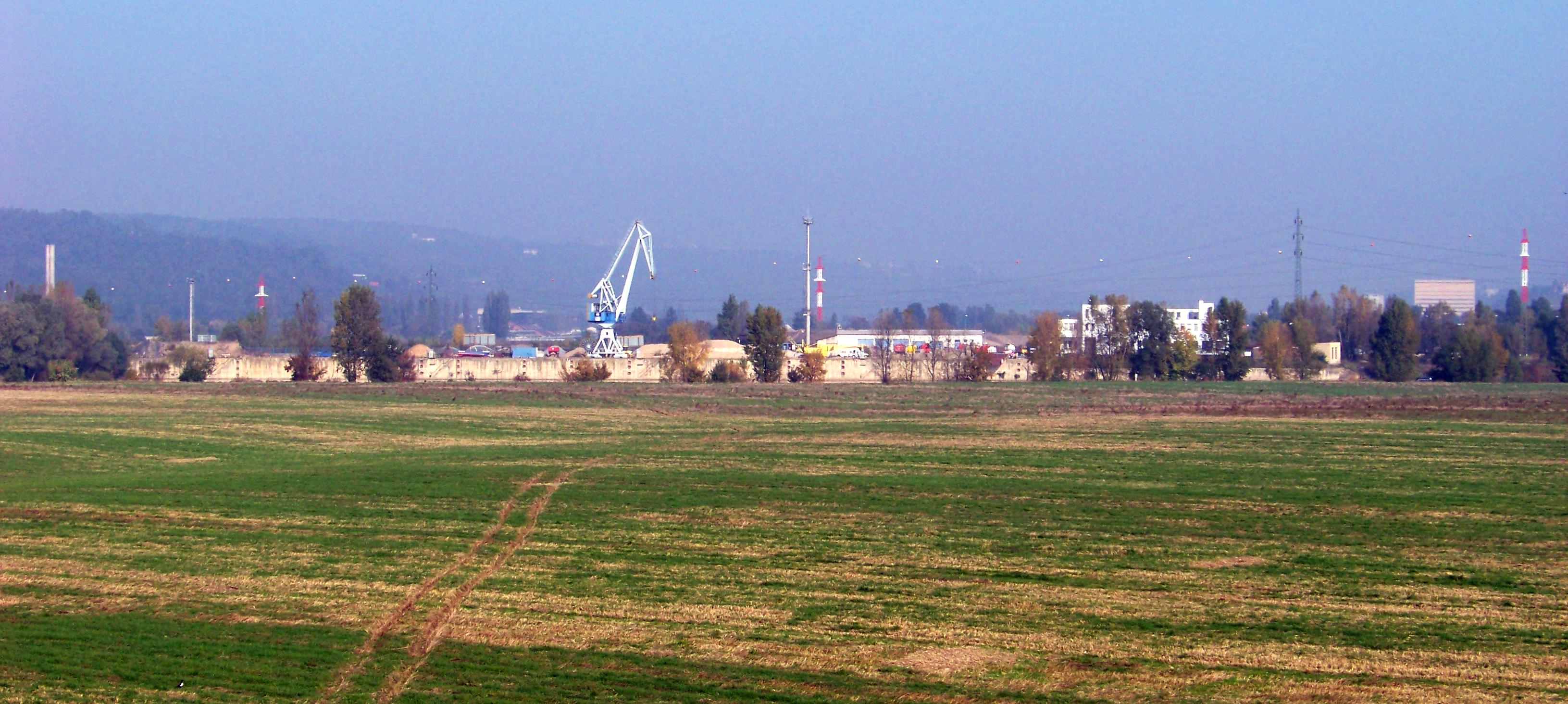 Prague-Lahovice and Radotín, the Czech Republic, a view of Port of Radotín from Lahovice Interchange of R1 and R4 expressways.